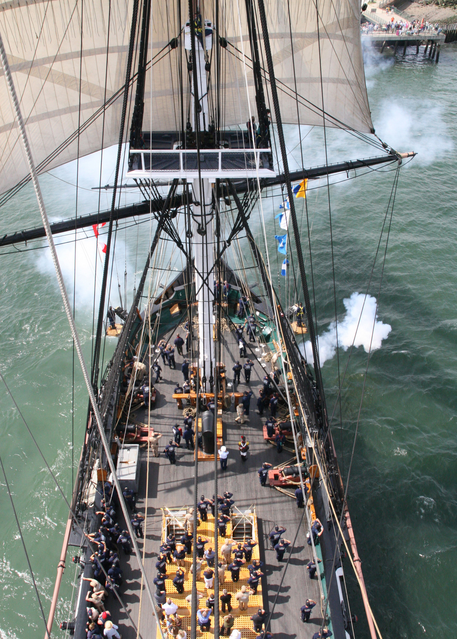 USS Constitution renders a 21-gun salute to the nation from her on board guns during the year's second Chief Petty Officer turnaround cruise in Boston Harbor. Two of "Old Ironsides" guns are outfitted with modern saluting batteries, which are fired twice every day at morning and evening colors. Each year, Constitution hosts approximately 300 CPO selectees for training, which includes sail handling, gun drill training and community outreach designed to enhance leadership and teamwork skills.